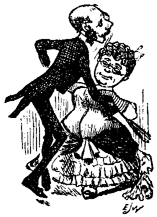 Not dancing Arabella Kenealy Punch Magazine in 1891